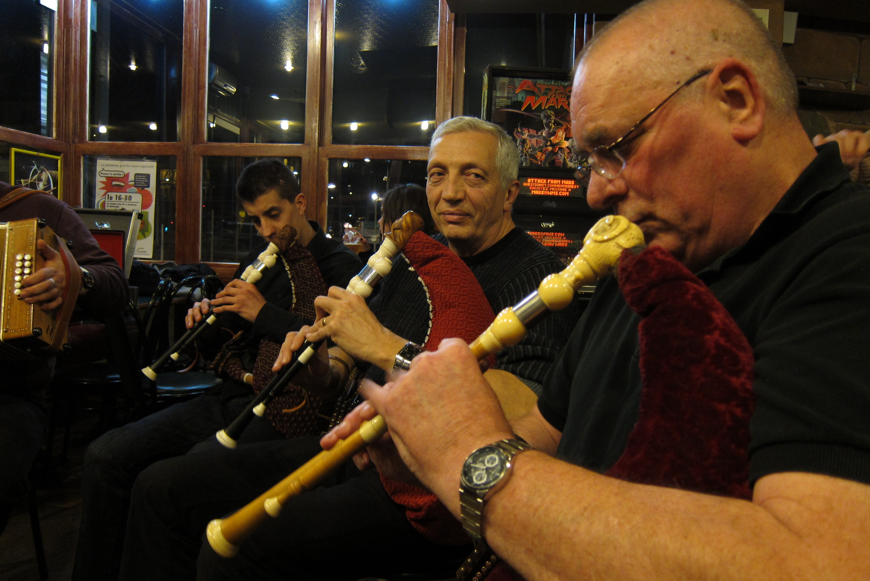 Three Cabrette players during a session, Auvergne, France, 2011